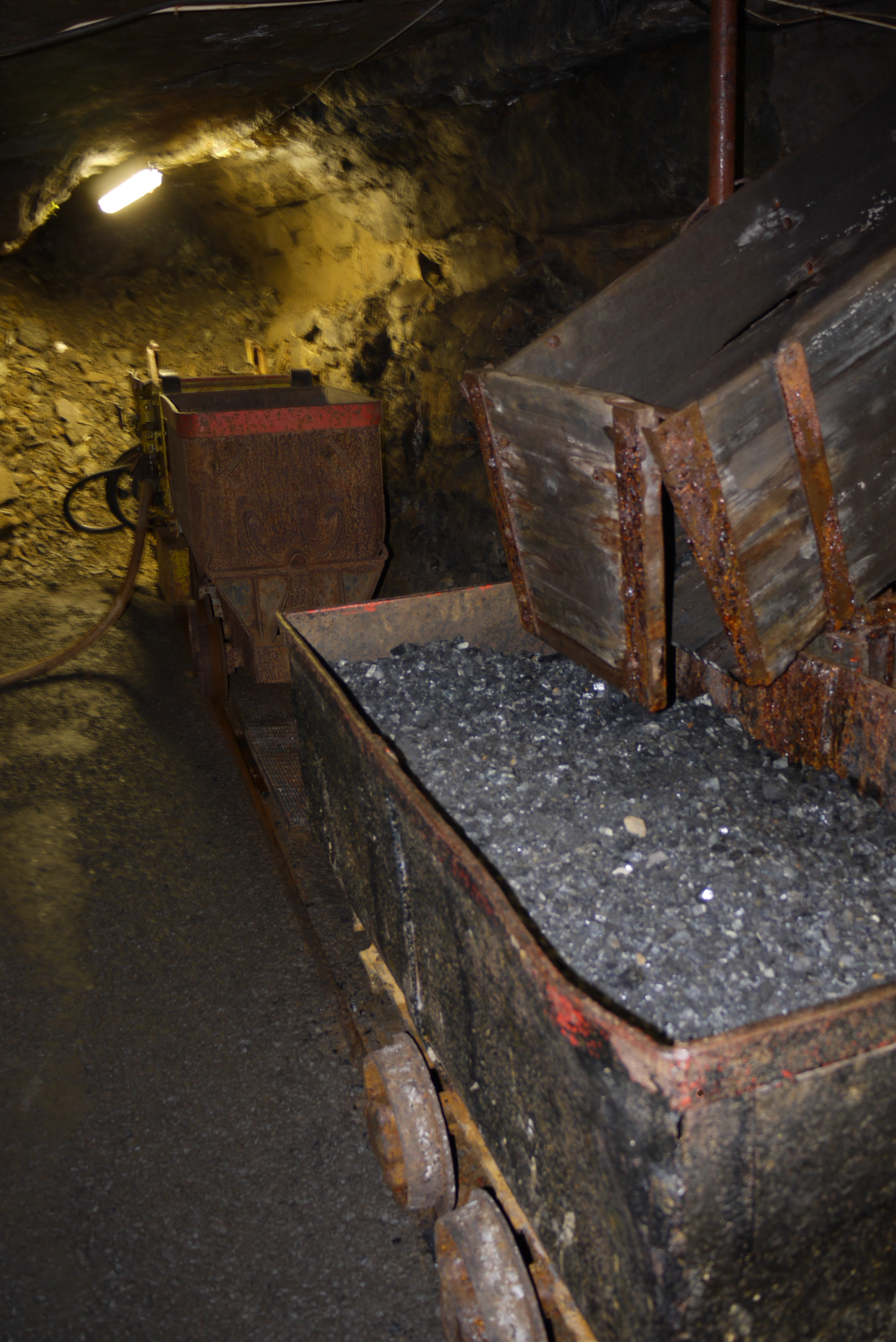 Coal mine Klosterstollen, exhibition mine in Barsinghausen, Lower Saxony, Germany (originally in use from 1871 to 1957)